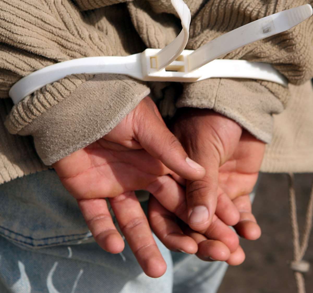 BANI DA HAR, Iraq - Iraqi soldiers with 2nd Battalion, 2nd Brigade, 7th Iraqi Army Division captured four insurgents April 16, 2006, at Bani Da Har, Iraq � a small village located along the Euphrates River in western Al Anbar Province, Iraq. Here, an insurgent is detained with the use of �flexi cuffs� � plastic hand-cuffs � before being transported to a detention facility. He was captured within hours of the three other insurgents who were taken into custody during the same operation. Proud of the fact more insurgents are off the streets of this small town, Iraqi soldiers captured the bandits without immediate assistance from the U.S. Marine unit partnered with the Iraqi unit � an uncommon occurrence in the few years since the end of Saddam Hussein�s regime in 2003. �We are sending a message to the insurgents,� said �Ahmed,� one of the Iraqi soldiers involved in the capture of the four insurgents. �There is a new sheriff in town.�